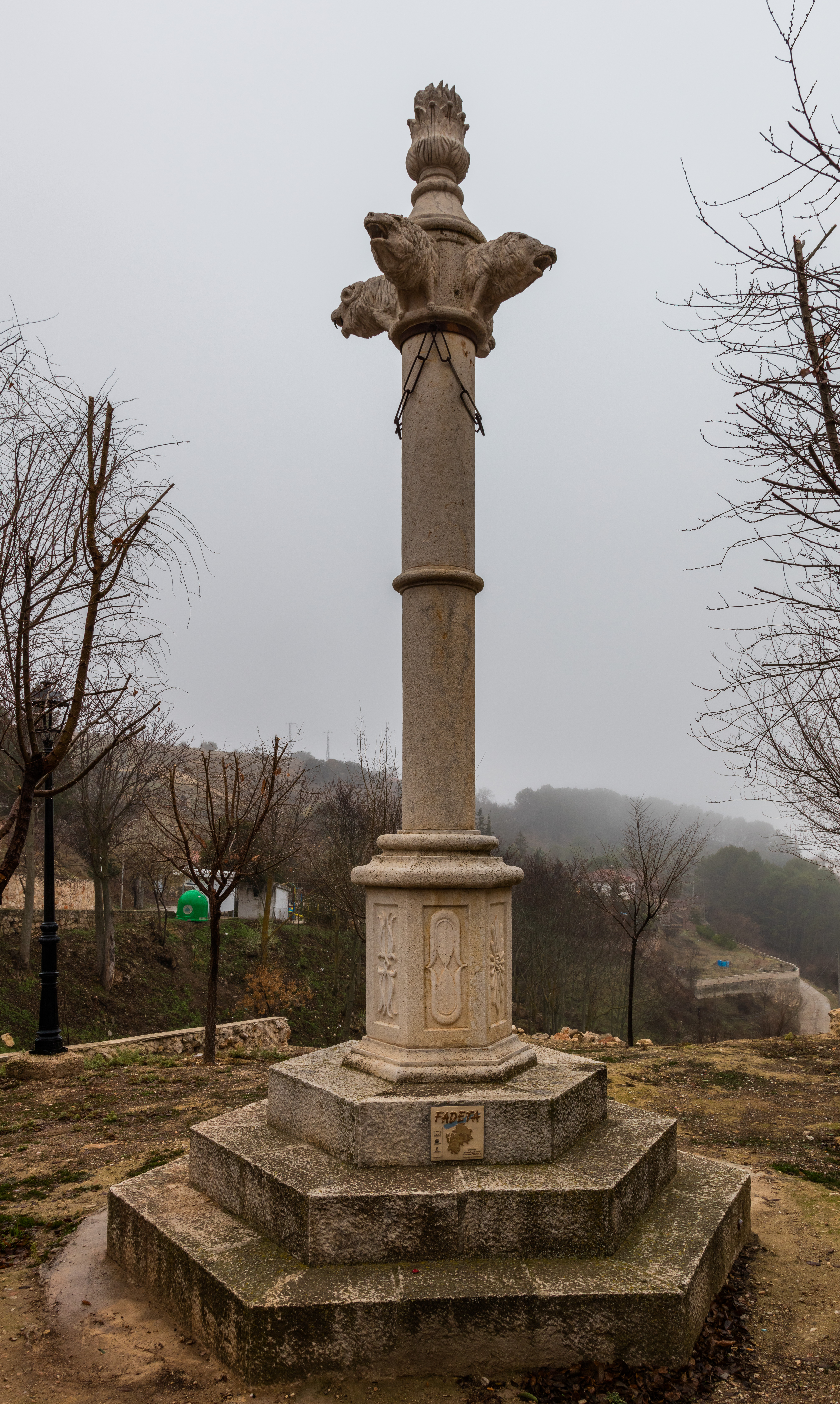 Pillory, Fuentelviejo, Guadalajara, Spain